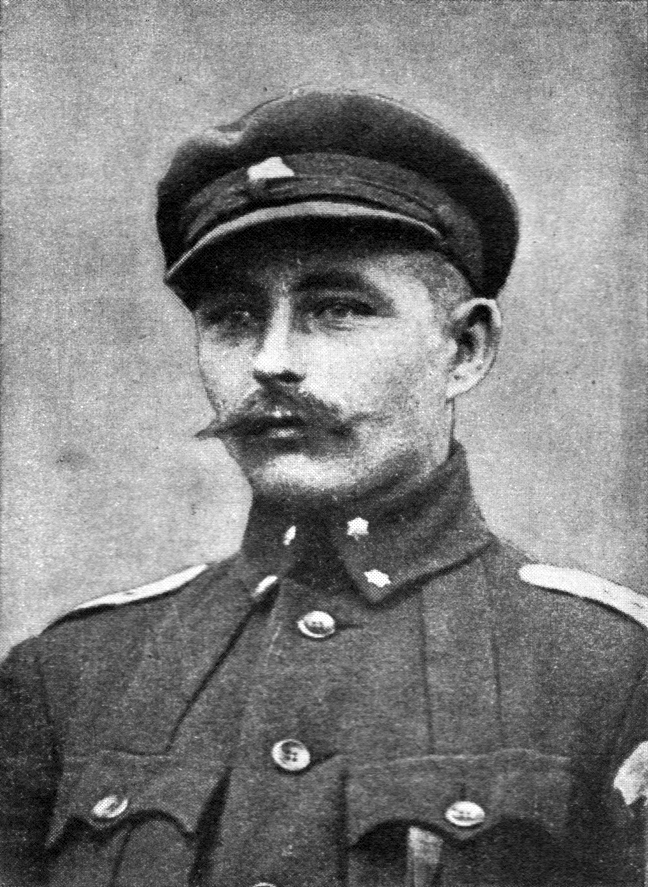 Lieutenant Nikolai Kivi. Commander of Broad Gauge Armored Train No 6 from 12 August – 30 December 1919.